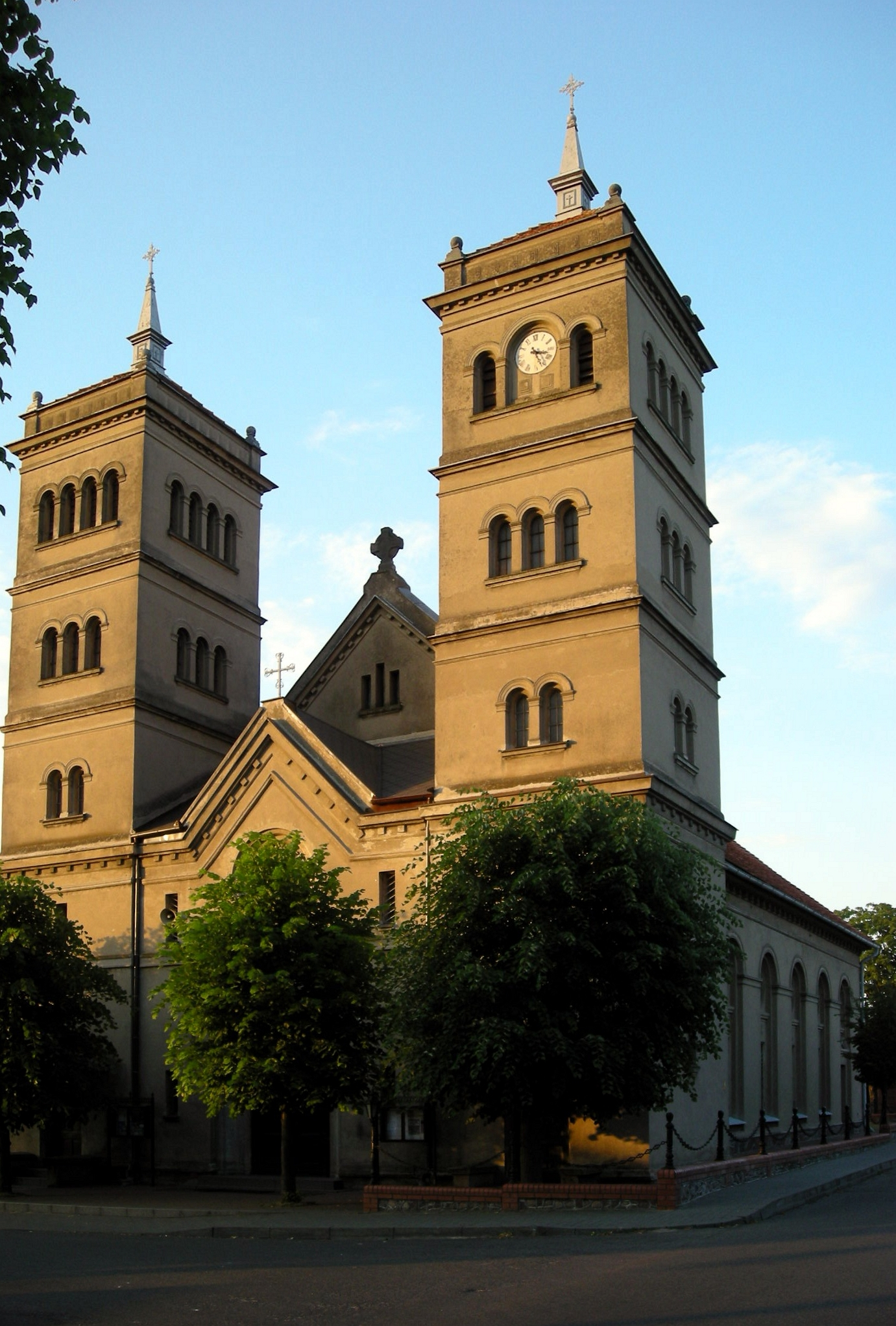 The church in Szamocin, Poland.